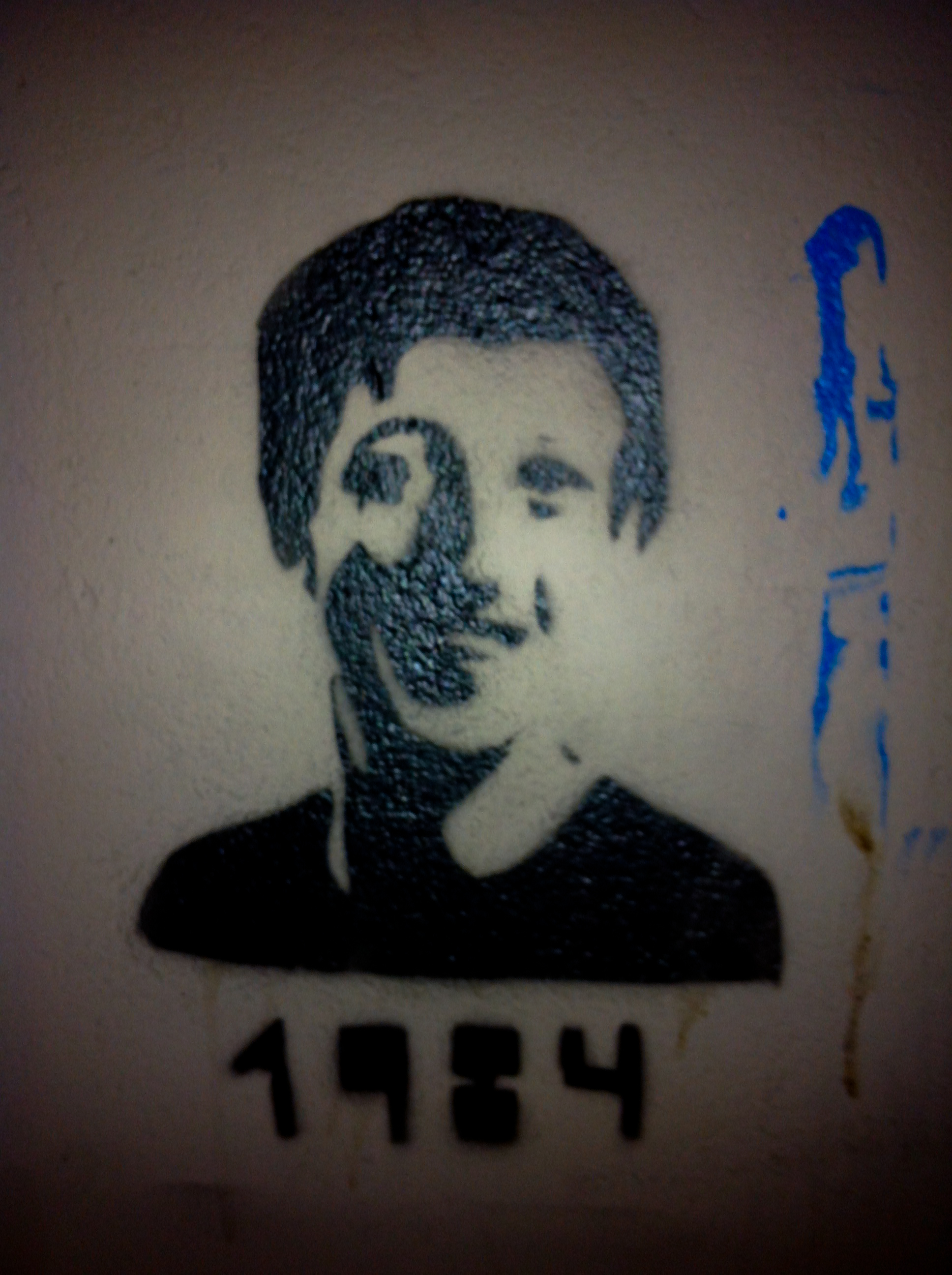 Mark Zuckerberg 1984 Berlin Graffiti